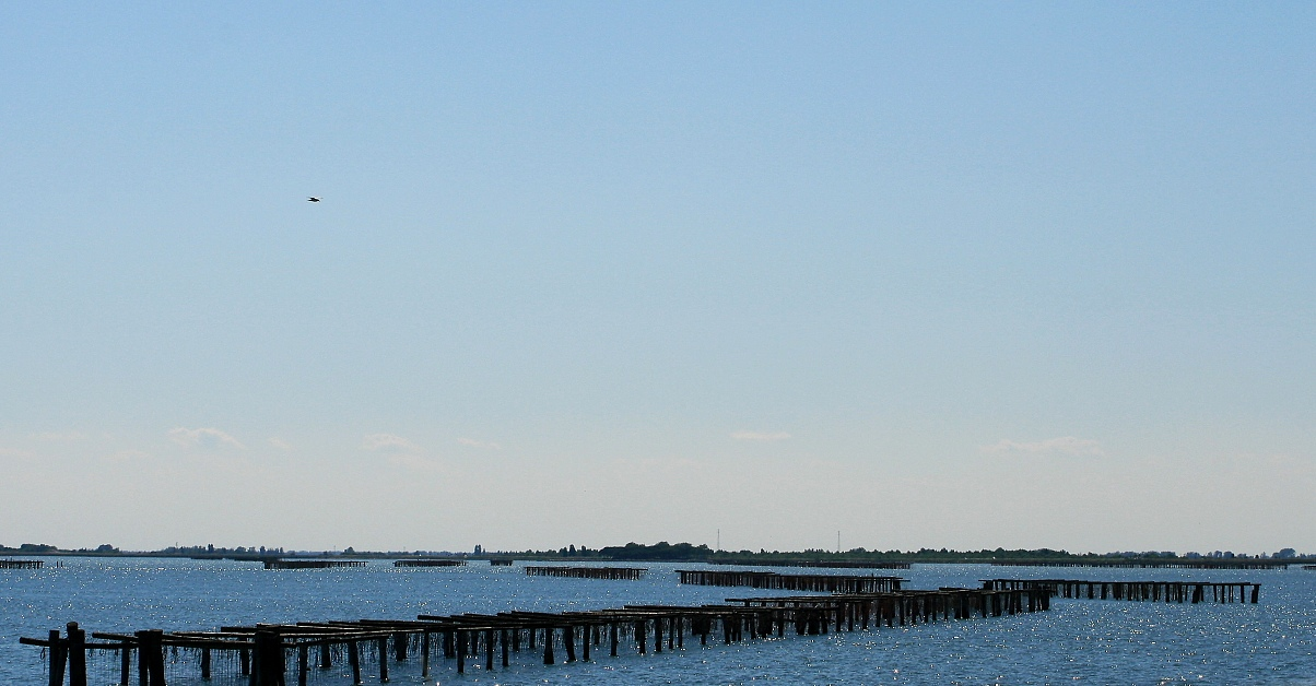 Mussels cultivated in the Po delta - Italy